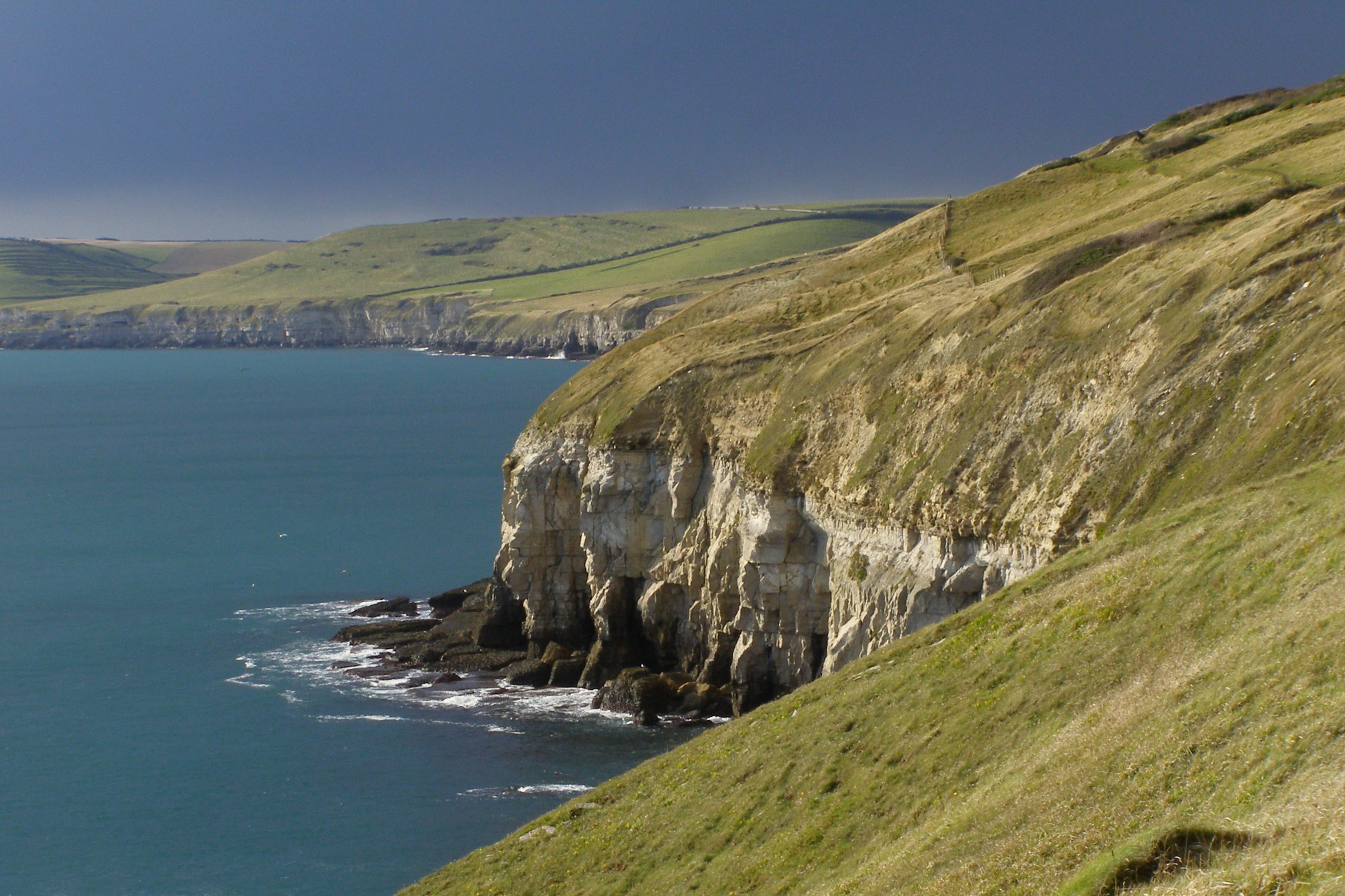 The south coast of the Isle of Purbeck, viewed from the coast path above Fisherman's Ledge, with Conner Cove below.